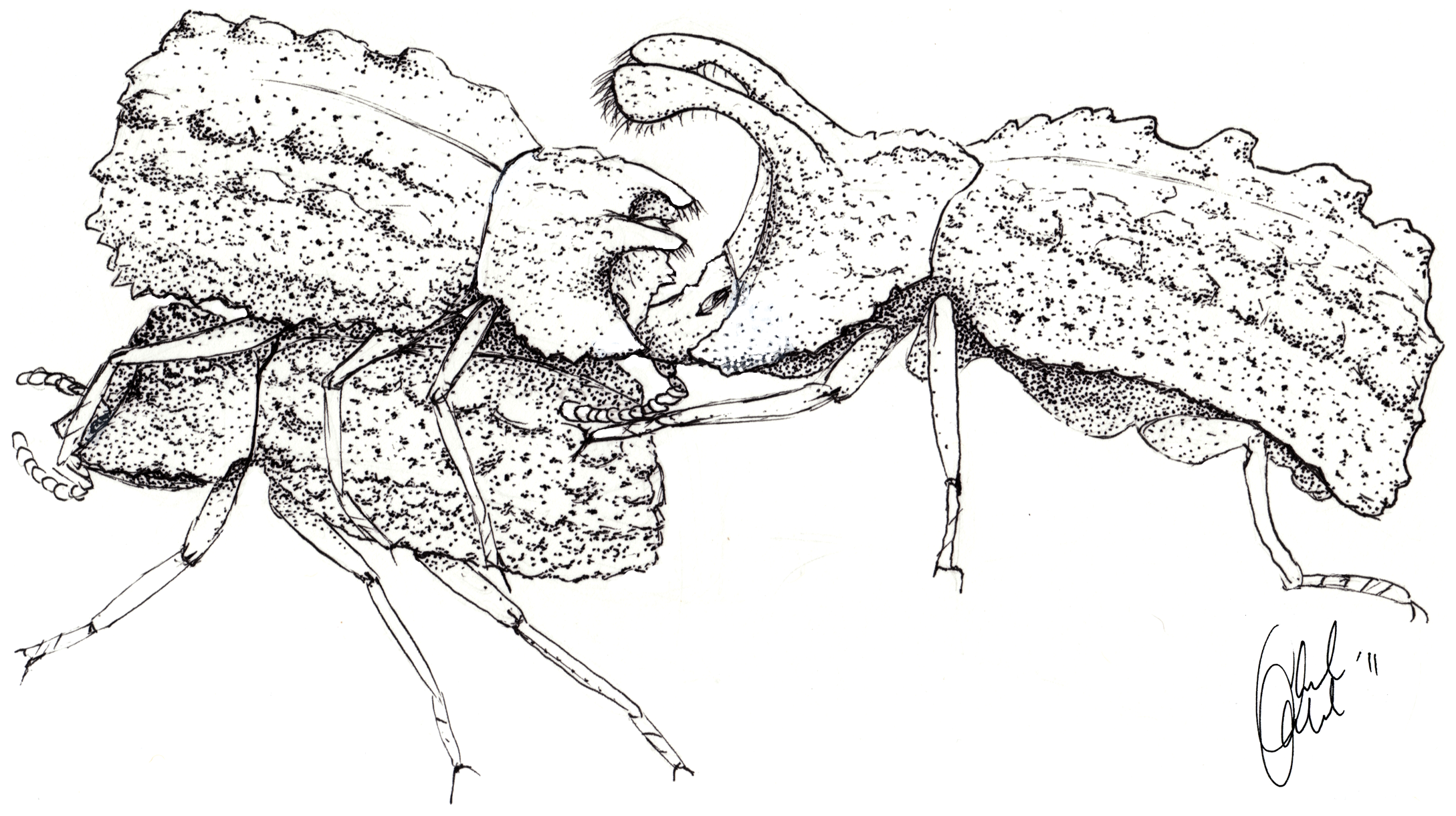 A small Bolitotherus cornutus male exhibiting the use of the grip strength in the wild. The small male is courting the female while the large male attempts to use his clypeal horns to dislodge the courting male. While these images illustrate an attack from the front of the courting male, we have observed attacks from behind as well as perpendicularly to the defensive male (personal observation). Attacks also occur during mate guarding, when the male and female are oriented in the same direction.